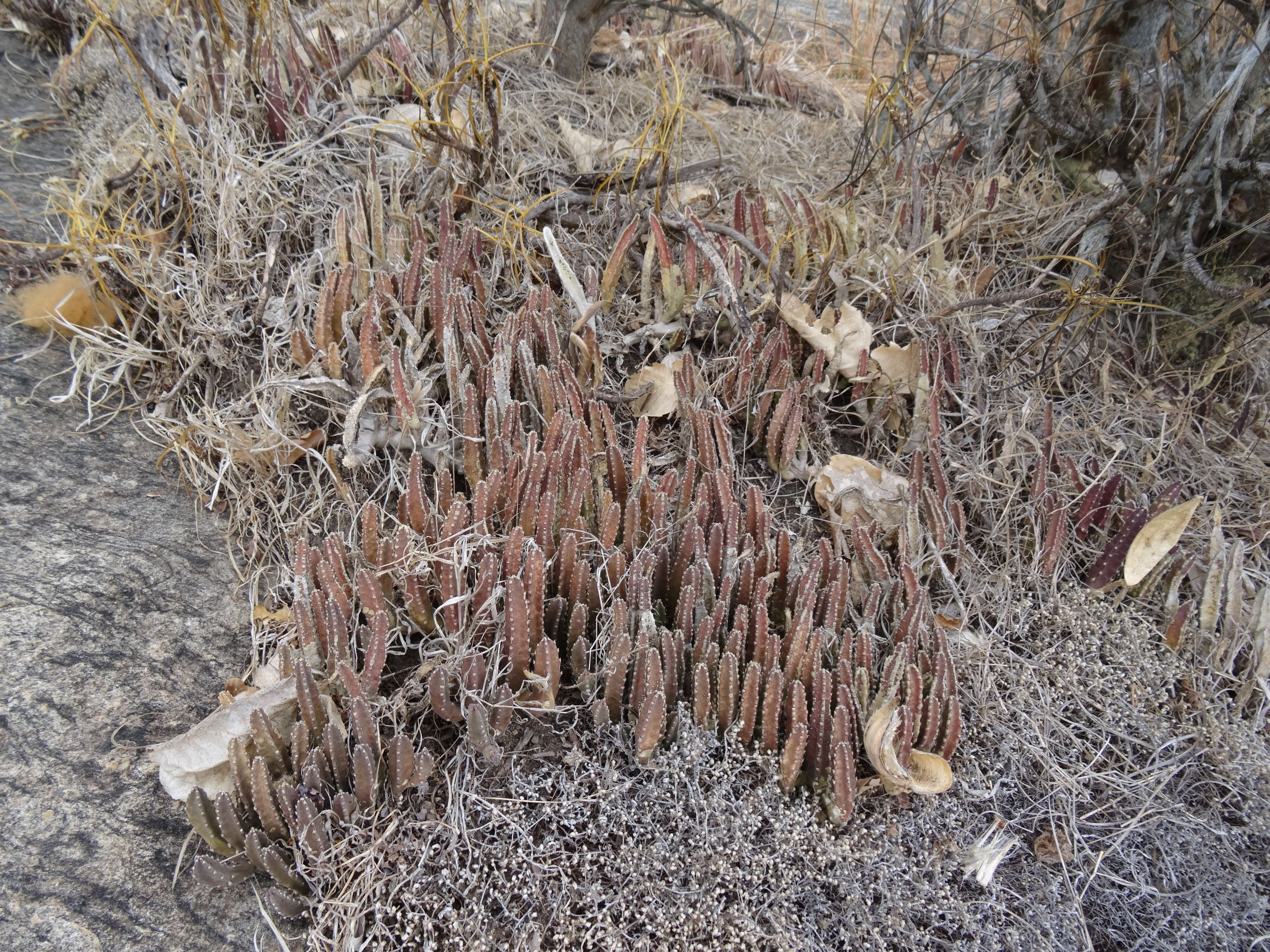 Stapelia sp. North of Erati